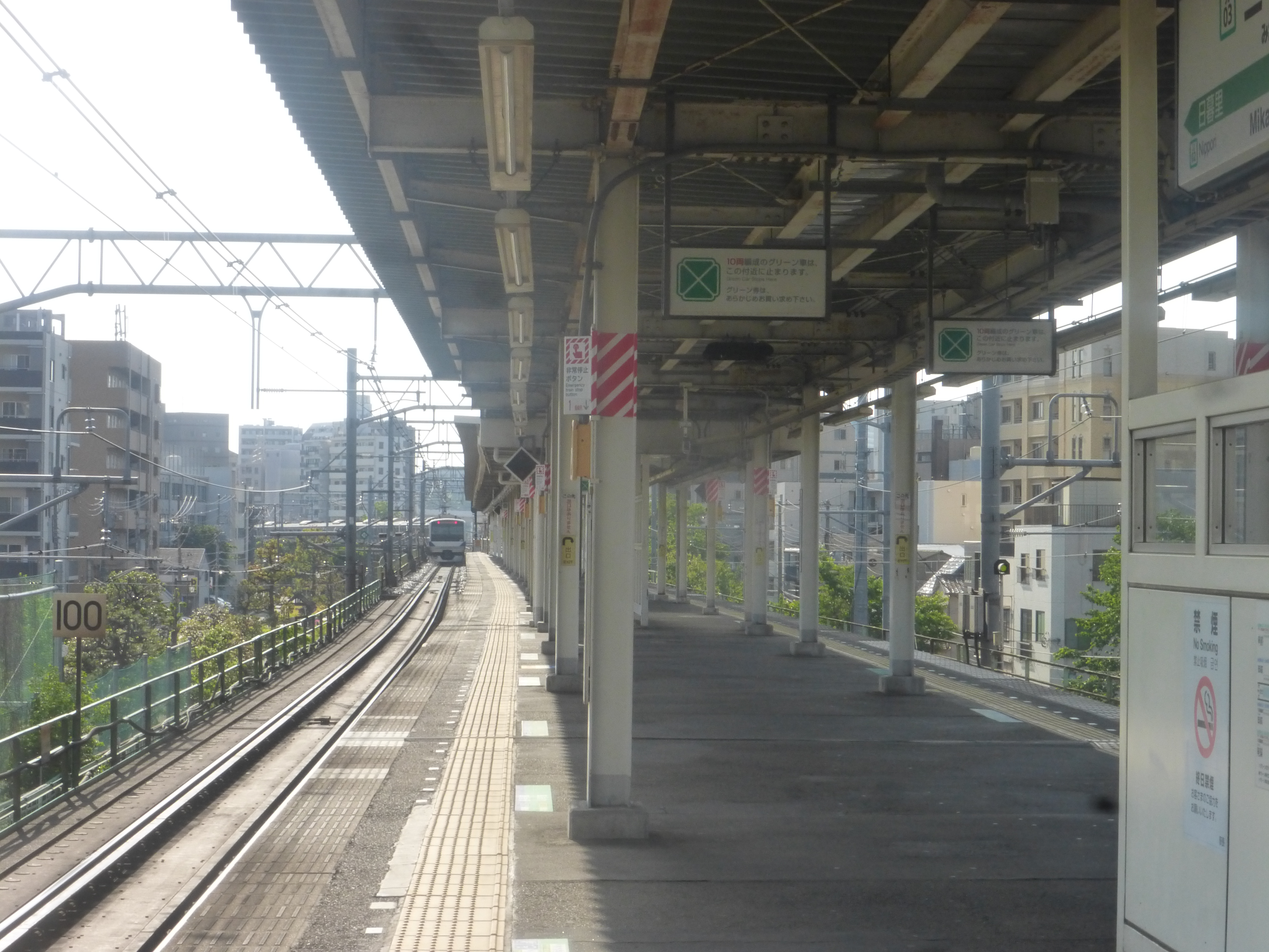 Mikawashima Station platforms (三河島駅のホーム)